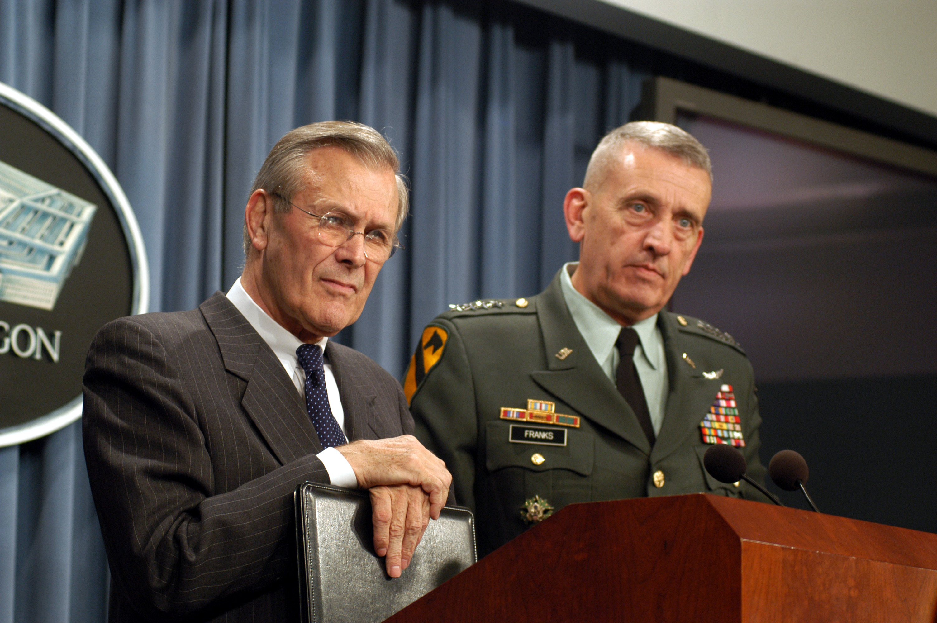 Secretary of Defense Donald H. Rumsfeld (left) and Commander, Central Command Gen. Tommy Franks, U.S. Army, listen to a question at the close of a Pentagon press conference on March 5, 2003. Rumsfeld and Franks gave reporters an operational update and fielded questions on the possible conflict in Iraq. DoD photo by Helene C. Stikkel. (Released)